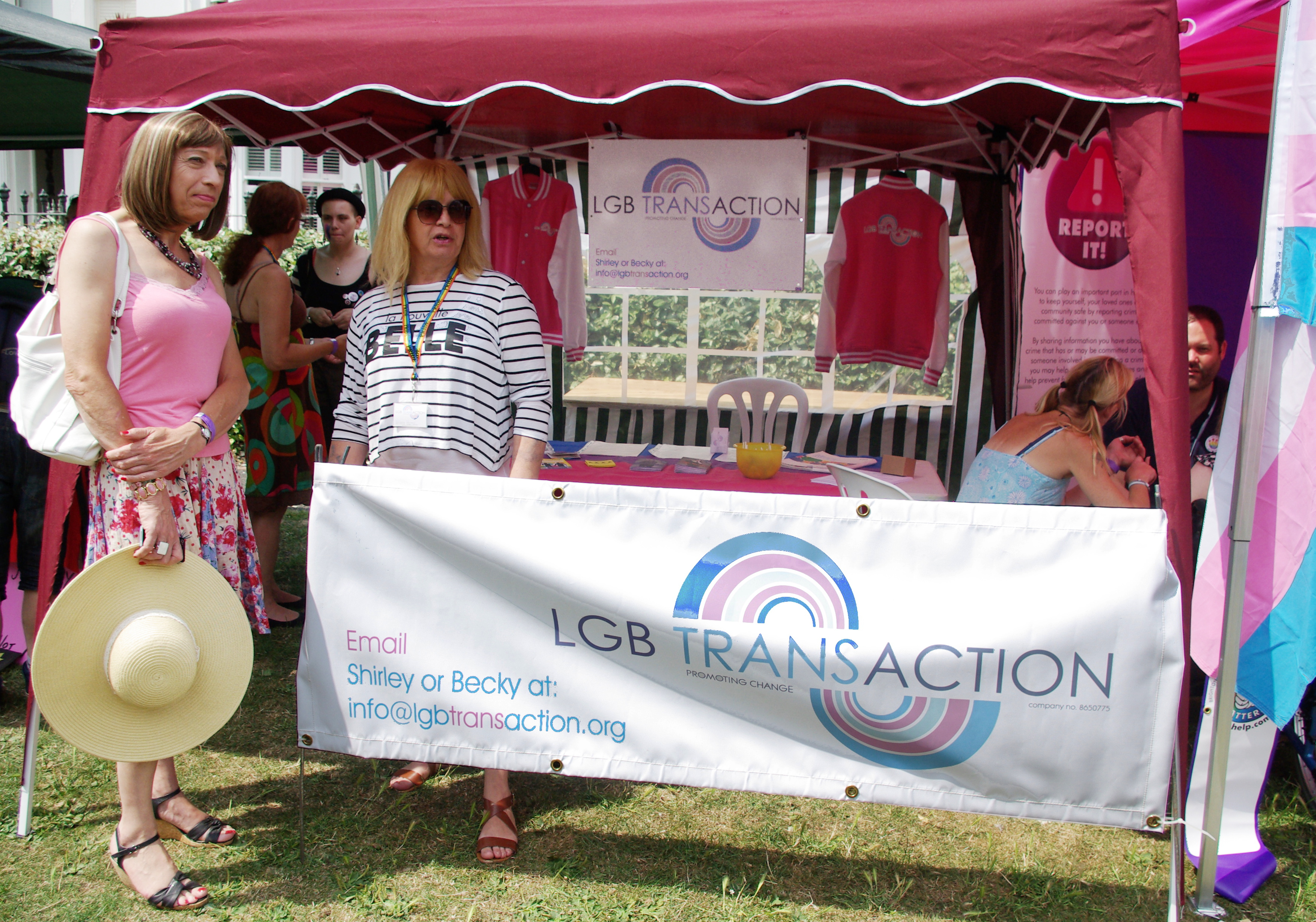 The LGBT Transaction stall at Trans Pride 2014